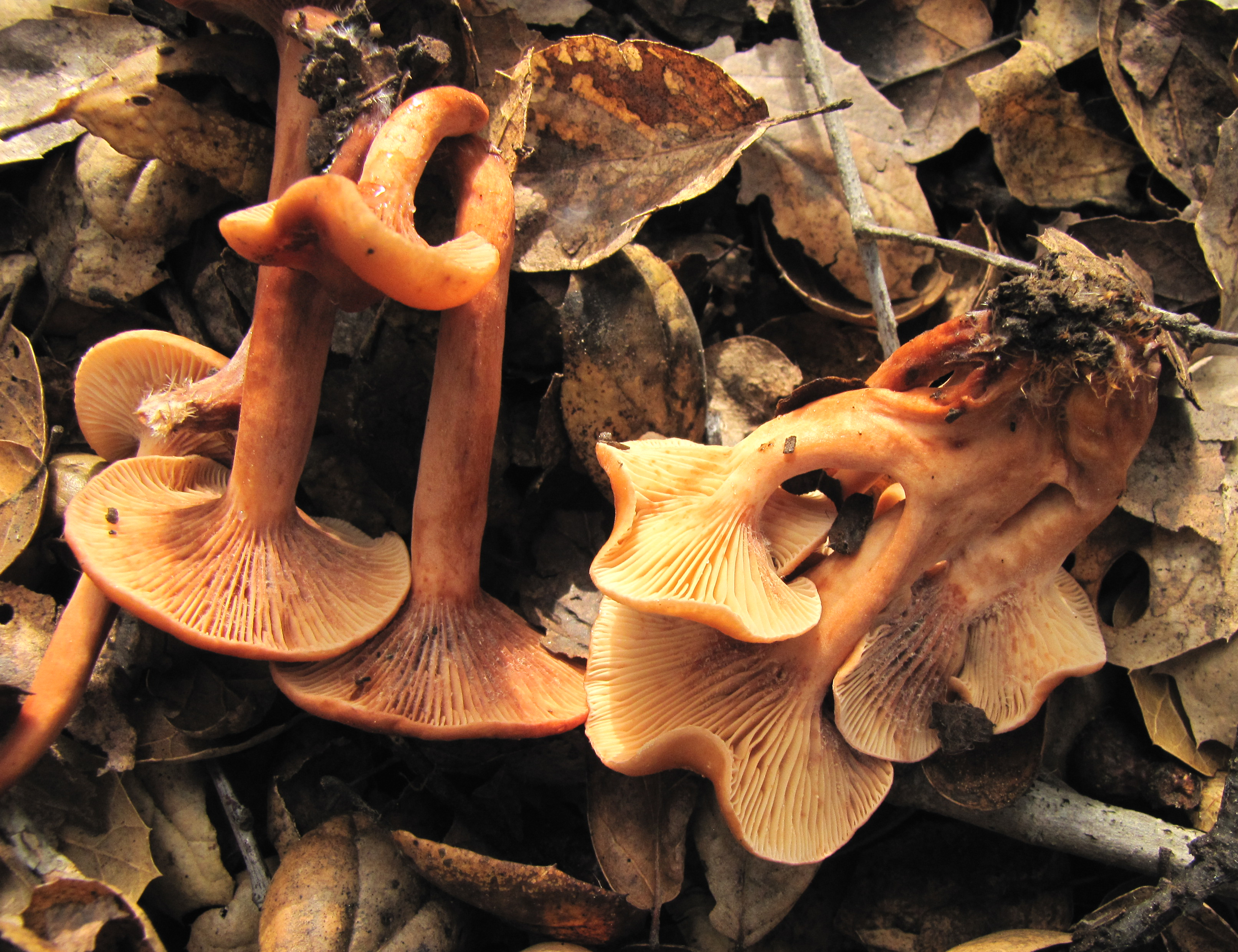 Fruit bodies of the fungus Lactarius rufulus Peck. Specimens photographed in Marian Bear Park, Clairemont, San Diego, San Diego County, California, USA. Notes: "Recognized by sight: Sweet odor, sugarwater-like latex, reddish" Original photo cropped and brightened (+5) with Photoshop by uploader.